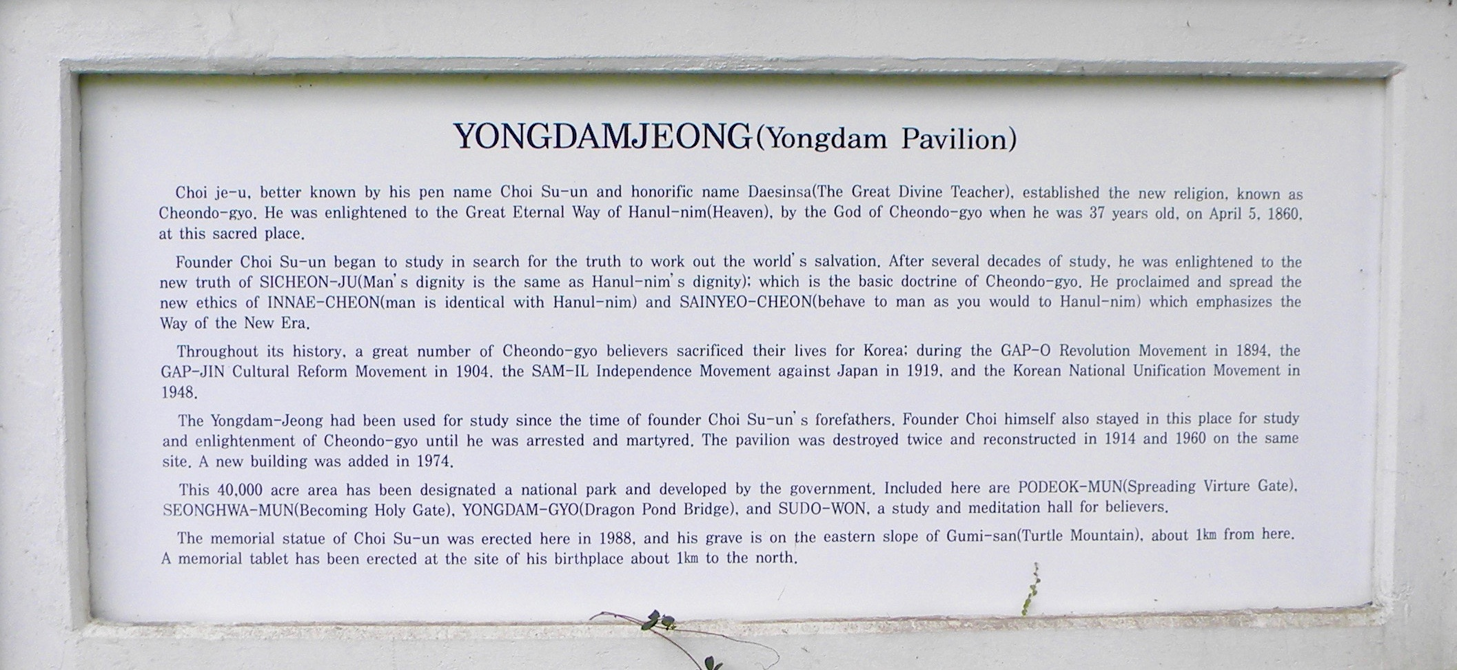 Plaque at the entrance to the Yongdamjeong Temple describes the site and its background